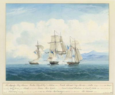 Capture of privateers Jeune Adele and Amelie by HMS Racoon, 1803. Pencil, pen and brown ink and watercolour heightened with white and with scratching out, on paper 13¾ x 18 in.